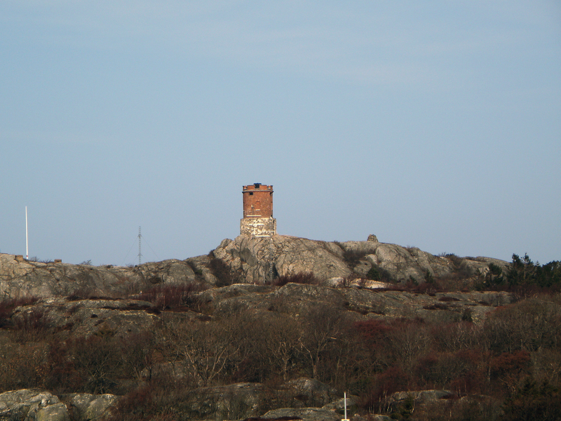 Känsö tower as seen from Vargö. Southern archipelago of Gothenburg, Sweden.